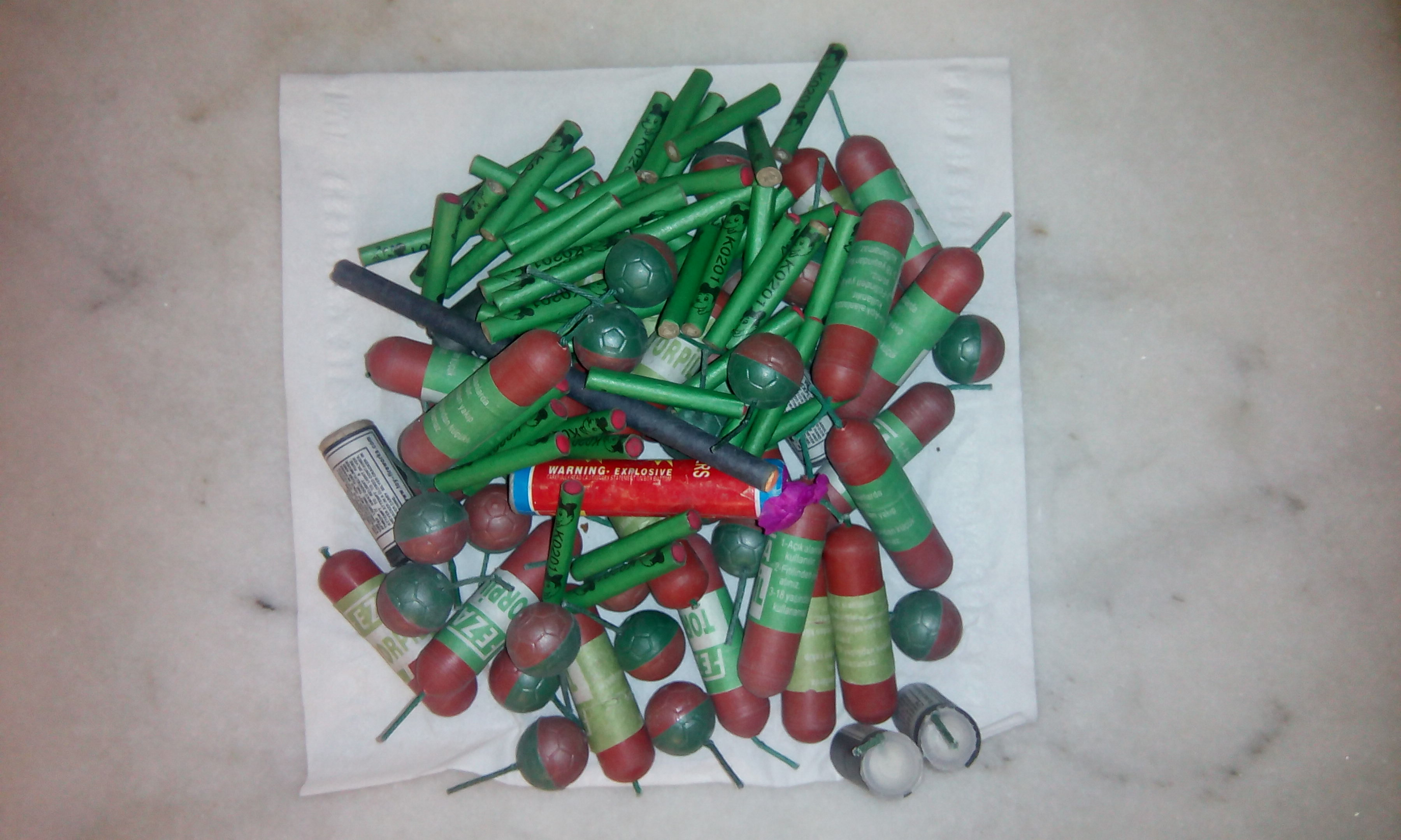 usual firecrackers in Iran